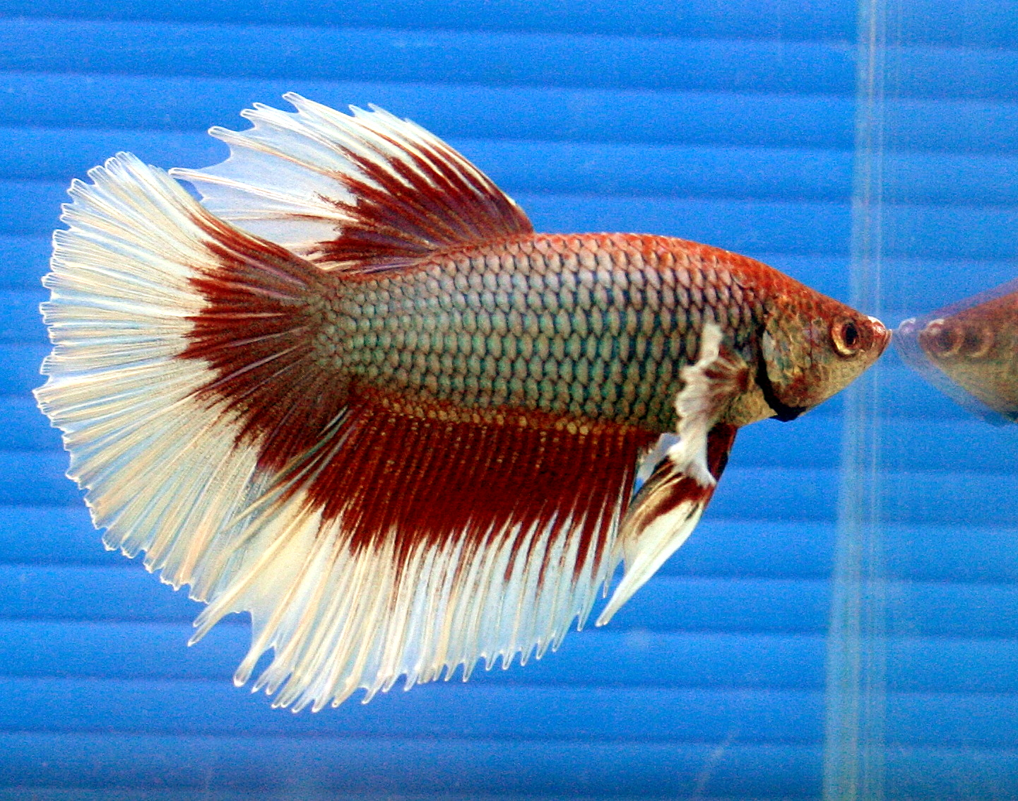 A delta betta Betta splendens from The 6th "Pramong Nomjai Thaituala" Thailand Tropical Fish Competition 2007.